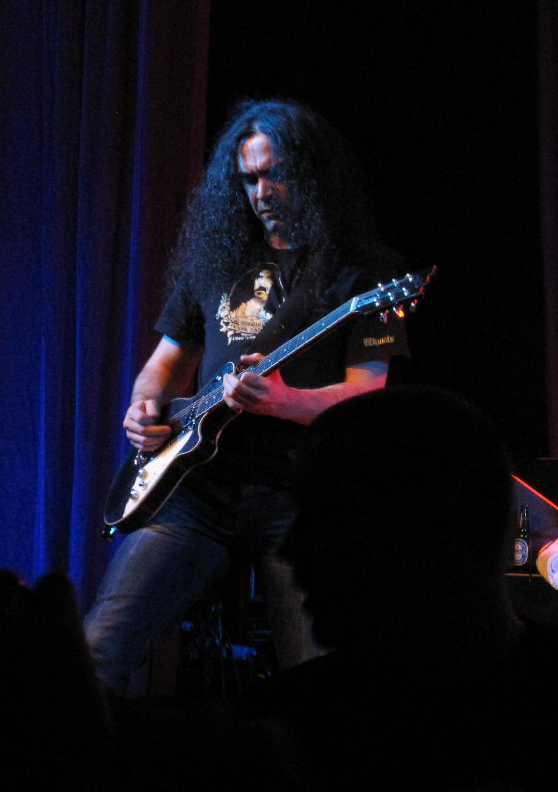 Sascha Paeth live with Avantasia in Stockholm on 2010-12-05